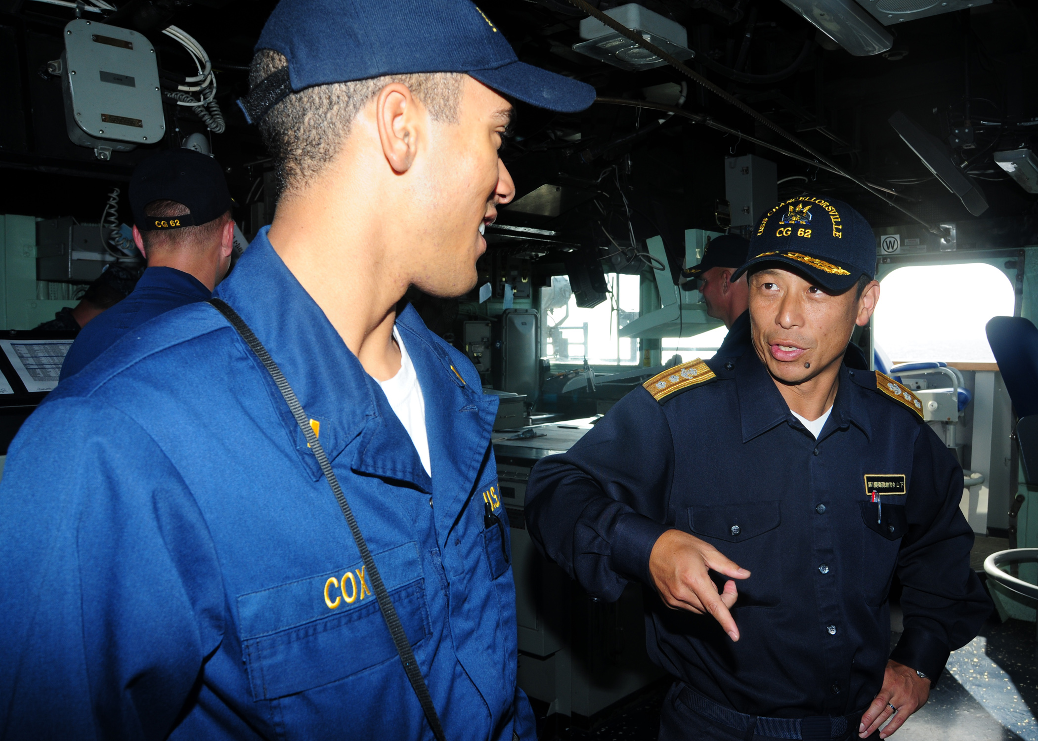 PACIFIC OCEAN (July 11, 2010) Rear Adm. Kazuki Yamashita, Commander, Combined Task Force and assistant deputy for Rim of the Pacific (RIMPAC) 2010 exercise, asks Ensign Charles Cox, electrical officer, questions concerning the bridge aboard the guided-missile cruiser USS Chancellorsville (CG 62). Chancellorsville is participating in RIMPAC, a biennial, multinational exercise designed to strengthen regional partnerships and improve interoperability. (U.S. Navy photo by Mass Communication Specialist 2nd Class Jeremy M. Starr/Released)